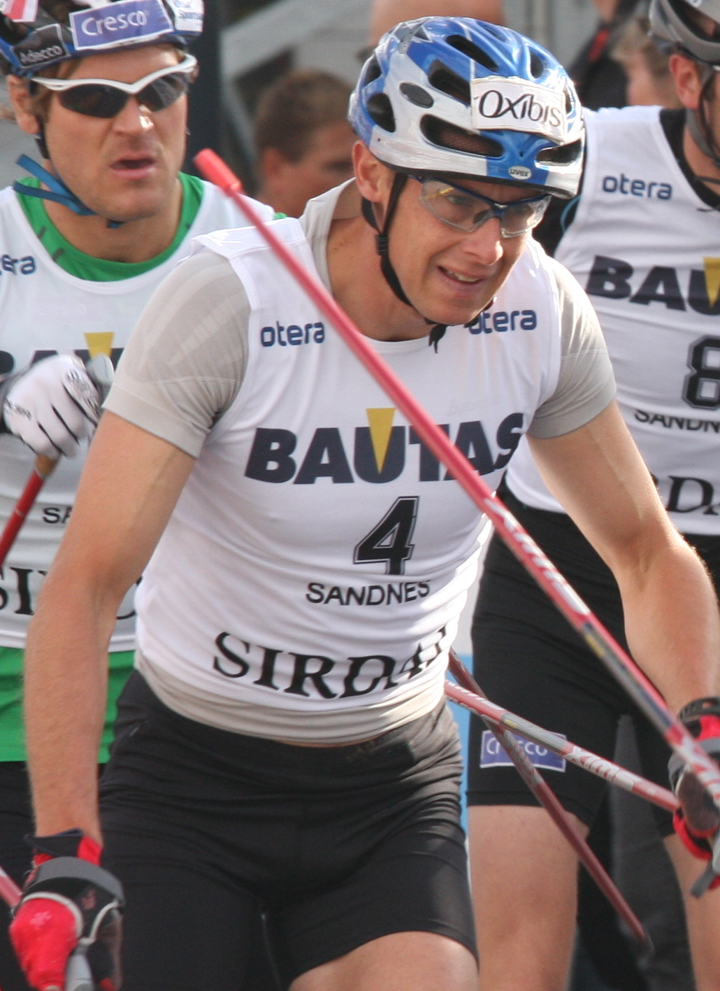 Emmanuel Jonnier at Blinfestivalen 2009